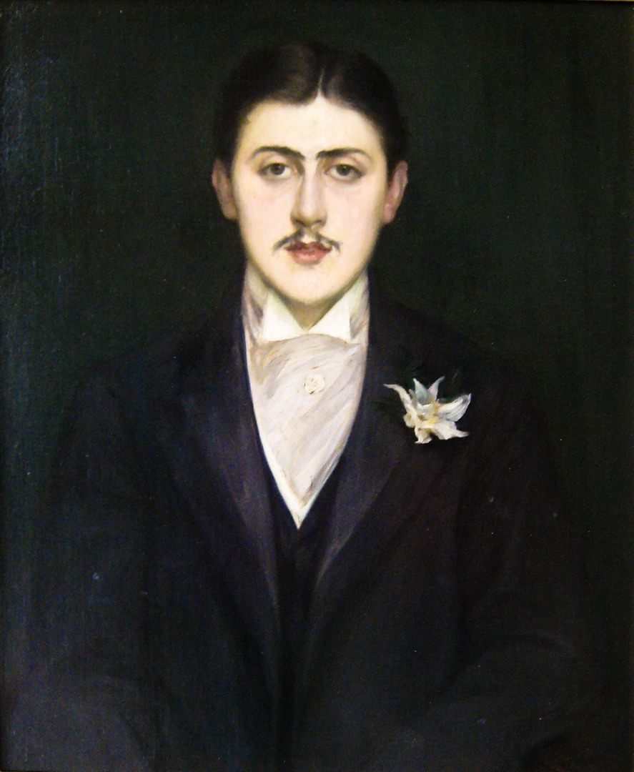 Marcel Proust (no frame)